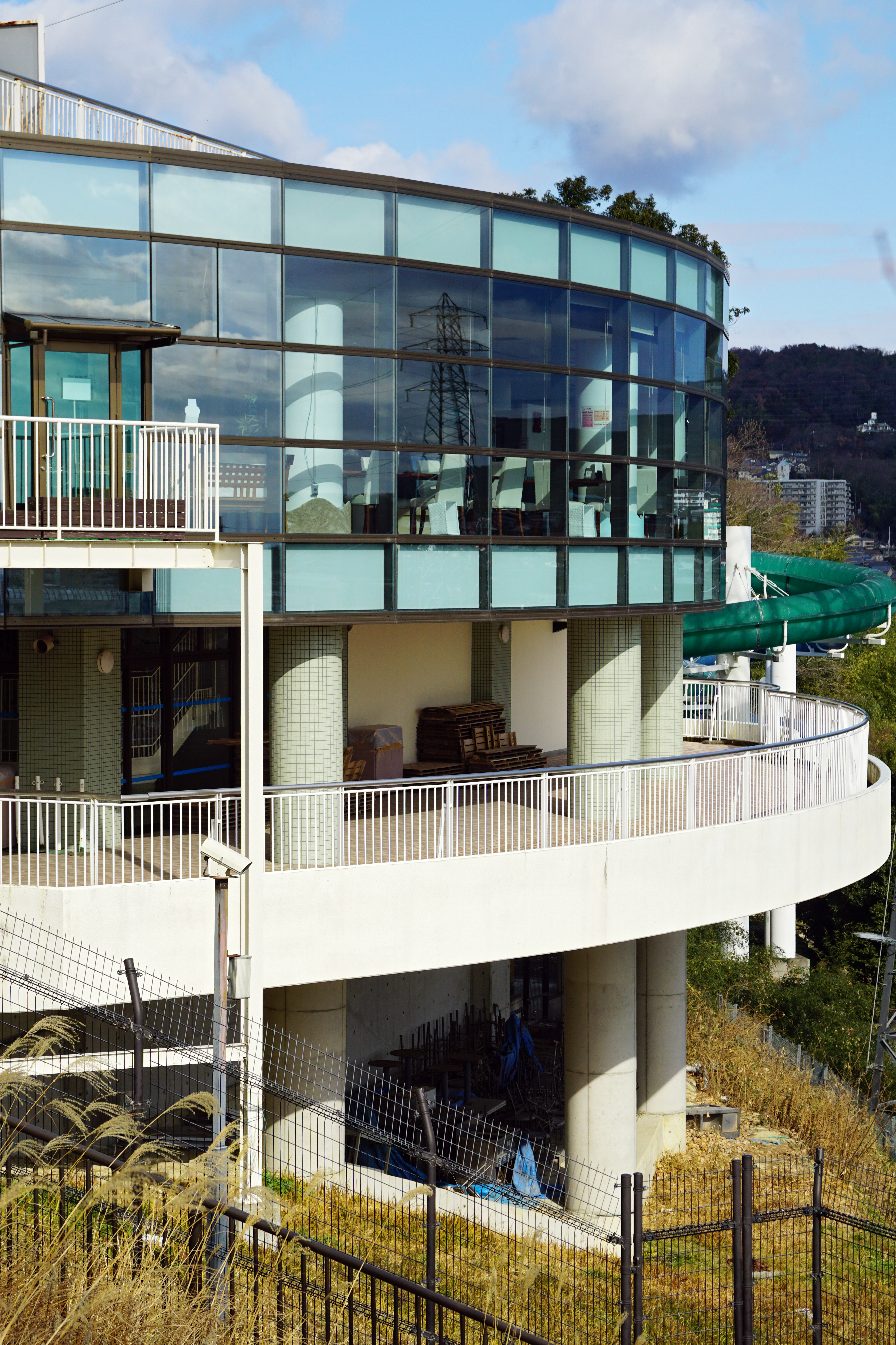 At Nanpeidai 5-chome, Takatsuki, Osaka prefecture, Japan.